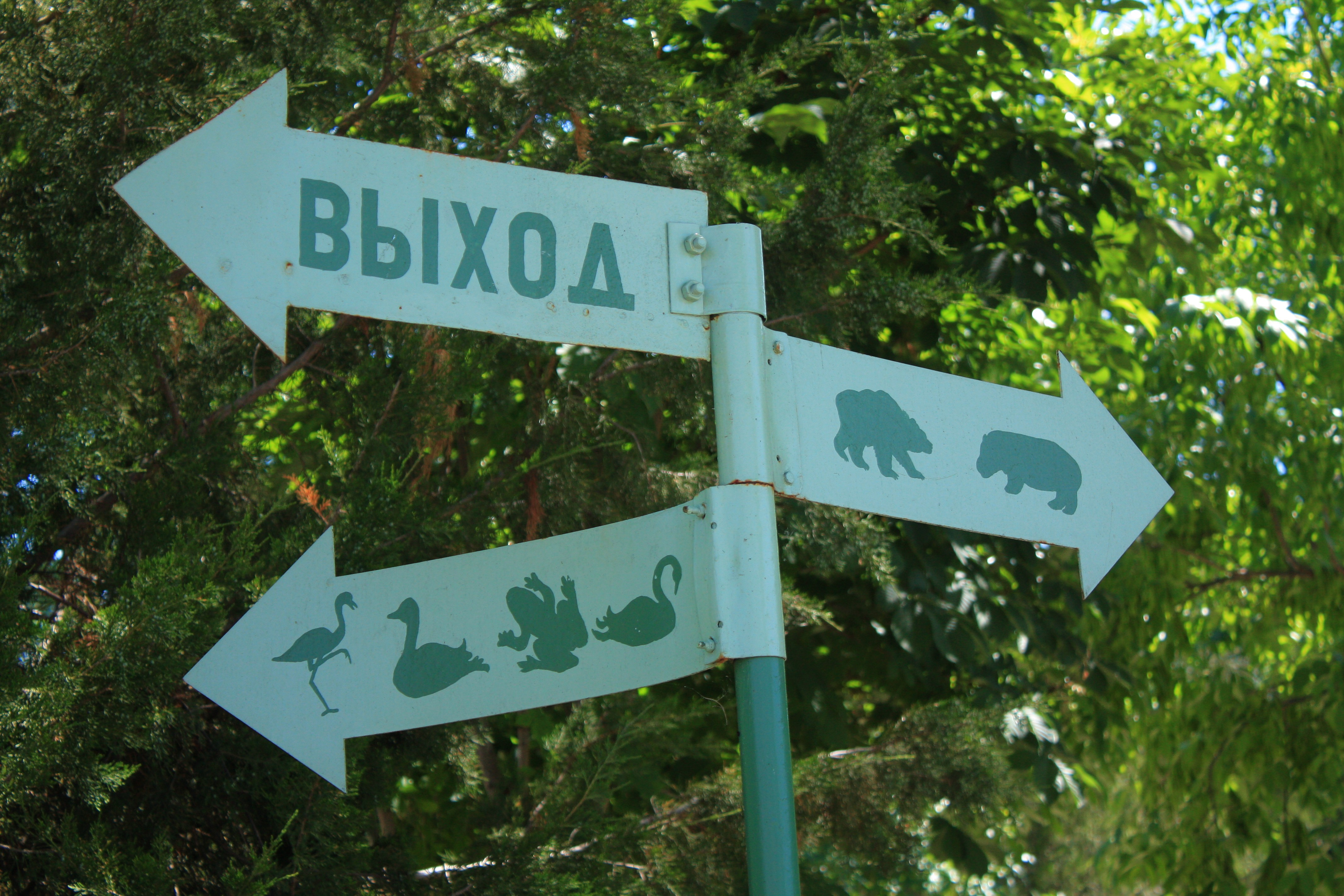 Signs in the zoo of Tashkent (Uzbekistan), indicating the exit and various animals.